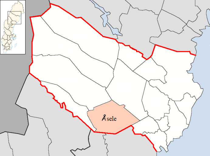 Åsele Municipality in Västerbotten County Designed by me. Mere outlines are a PD source from